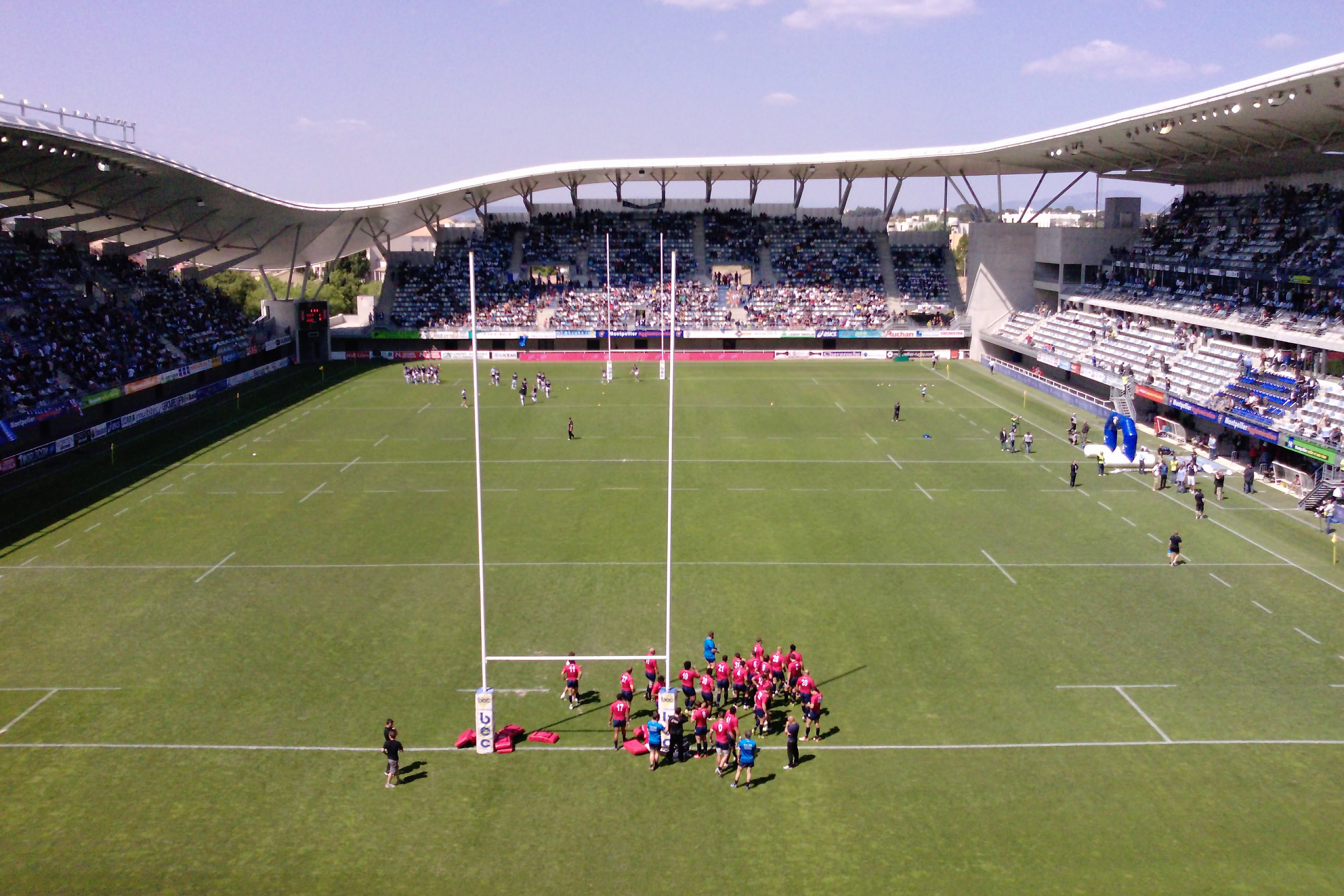 Yves-du-Manoir stadium of Montpellier (France). View from Murrayfield stand.